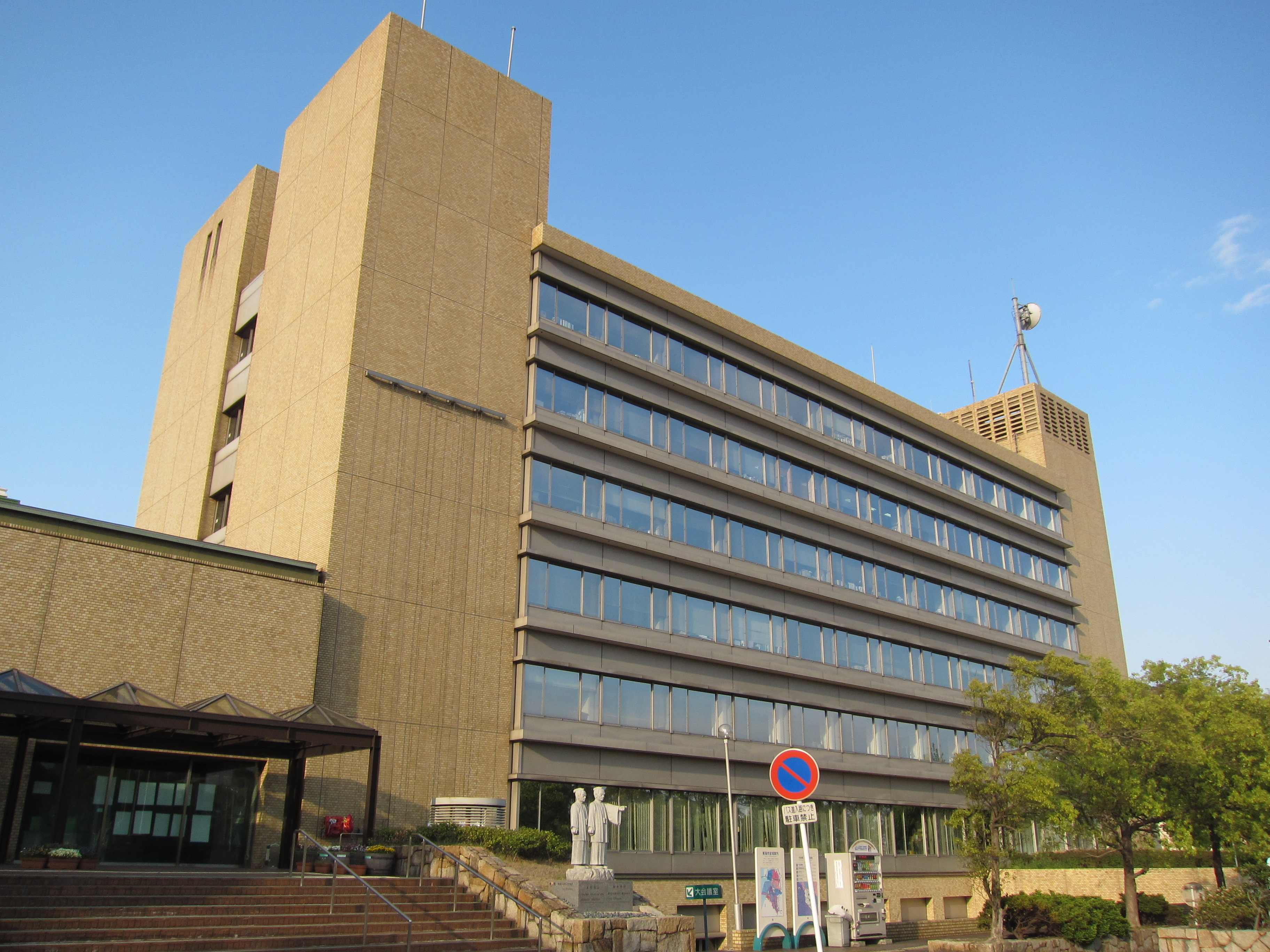 Tokai City Hall in Tokai city, Aichi prefecture, Japan.